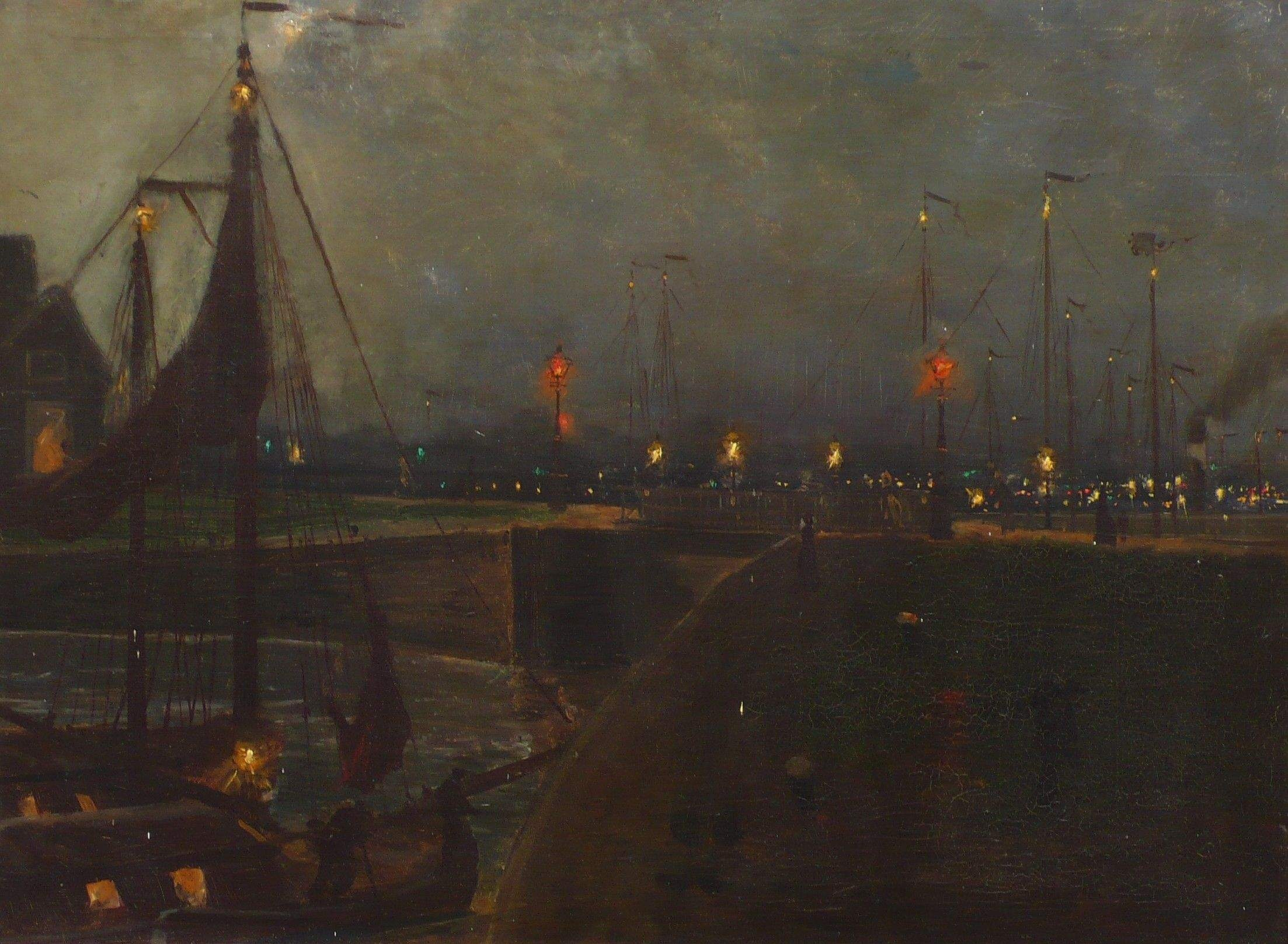 Haven bij nacht (Scheveningen)